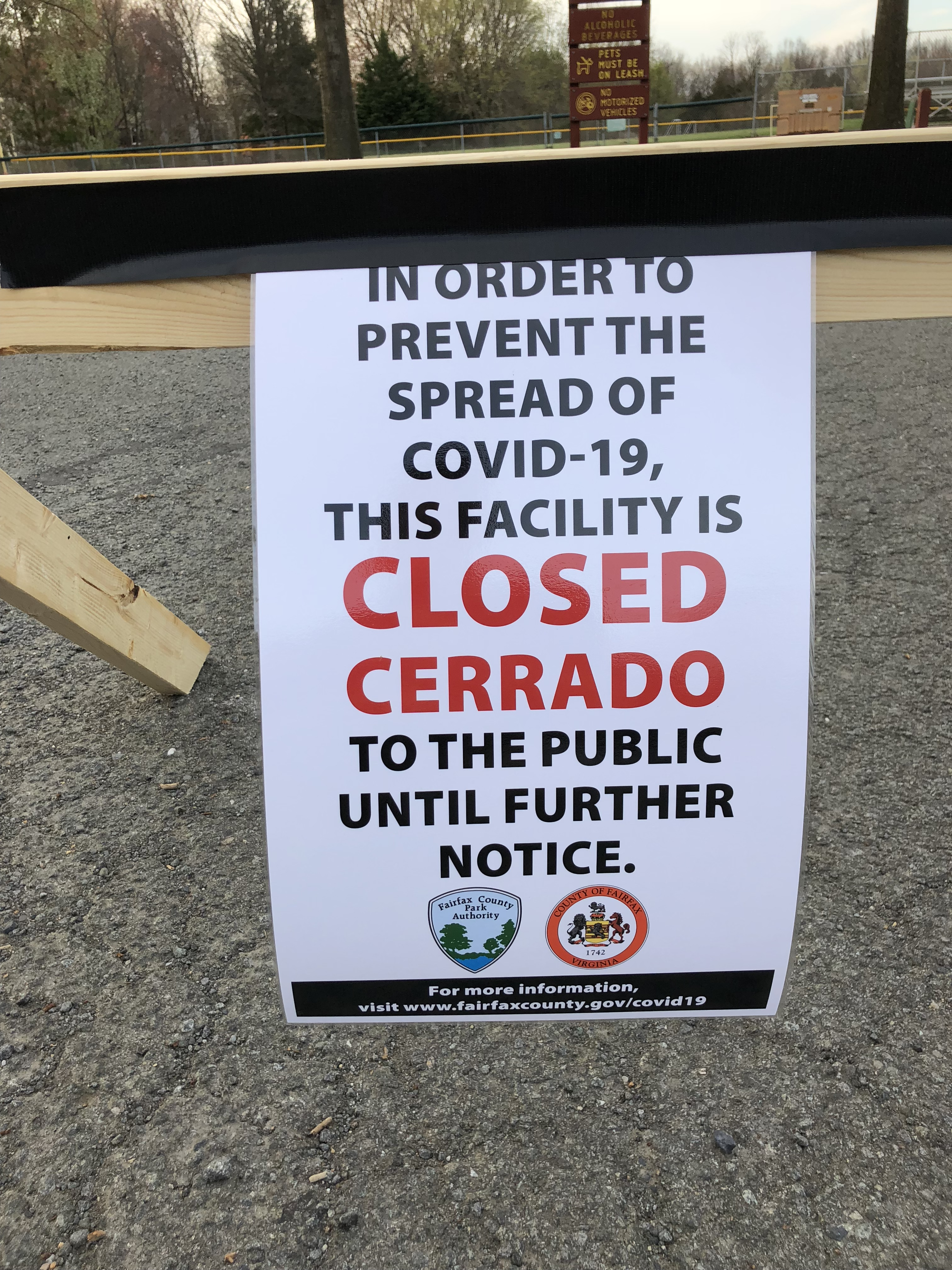 Sign reading "In order to prevent the spread of COVID-19, this facility is CLOSED to the public until further notice" at Franklin Farm Park in the Franklin Farm section of Oak Hill, Fairfax County, Virginia